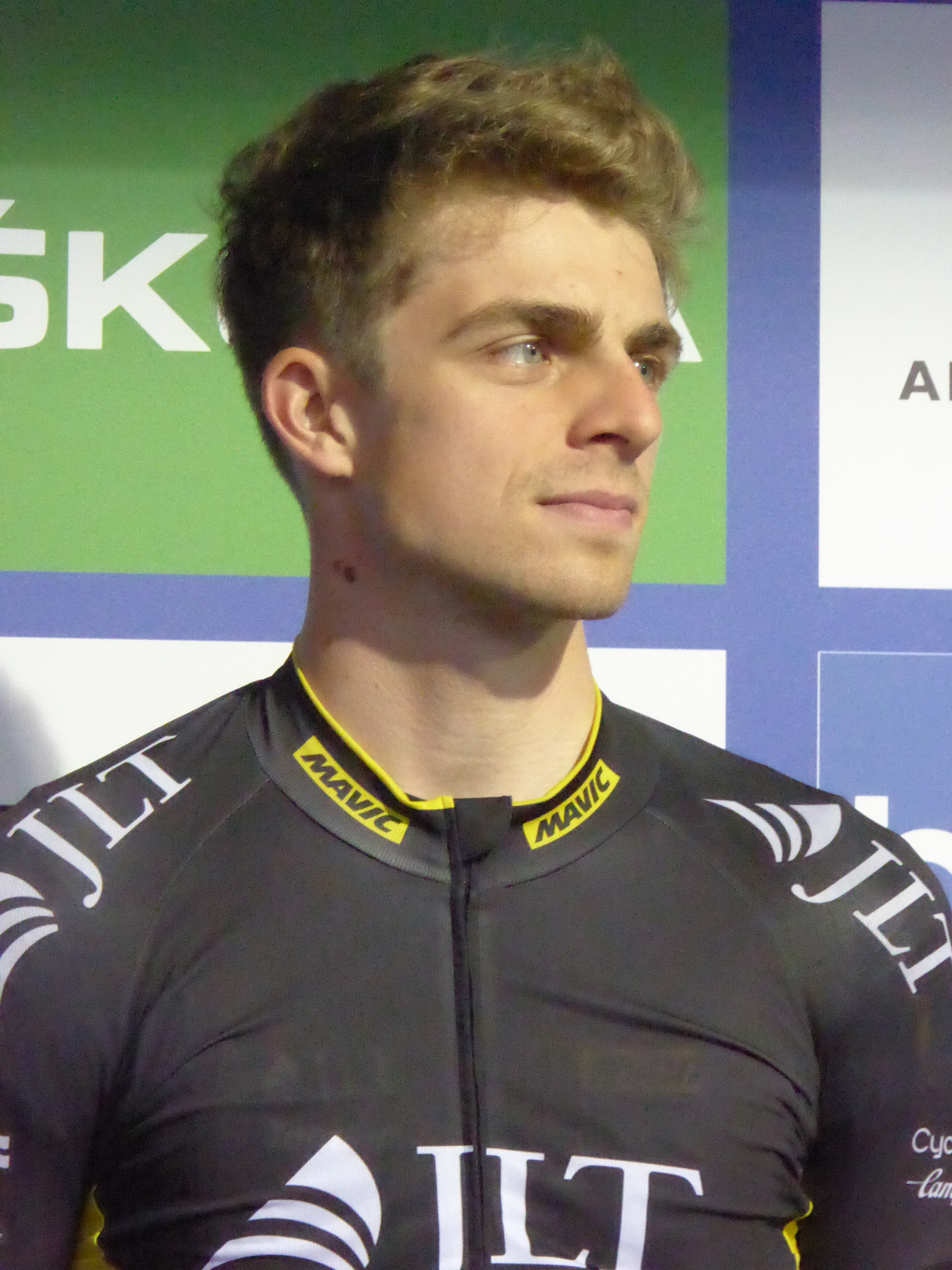 Tom Moses (JLT-Condor), pictured at the 2016 Tour of Britain team presentation in Glasgow on 3 September 2016.